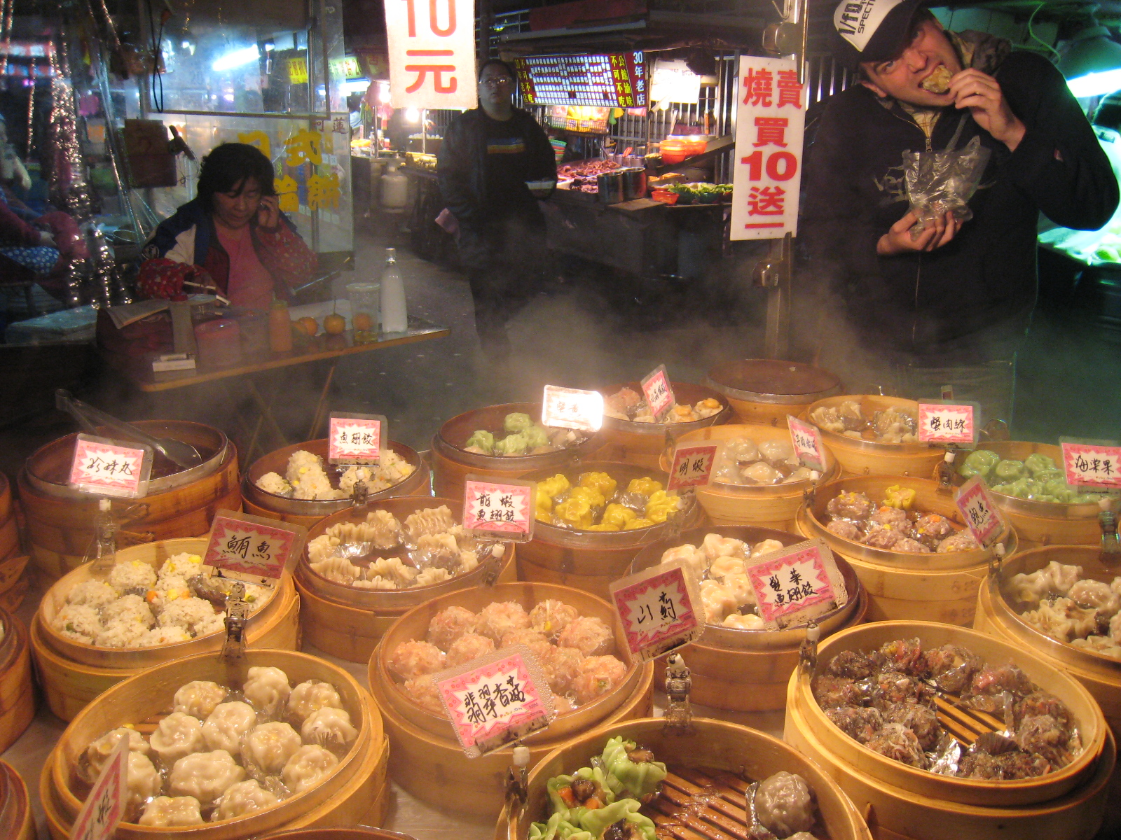 eating dimsum dumplings on the street in gongguan. pictures by tashenka. We'd just seen Music and Lyrics (K歌情人) It was weird.dumpling time